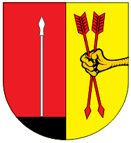 Pereschepyne